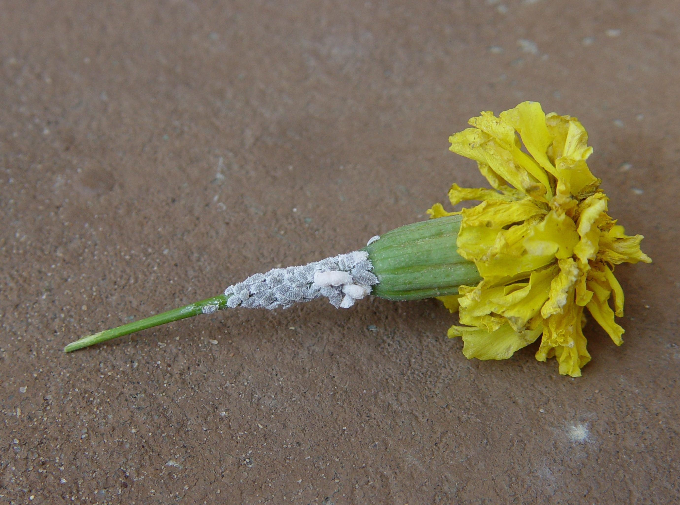 Planococcus citri on Tagetes sp., Mobile. AL, USA